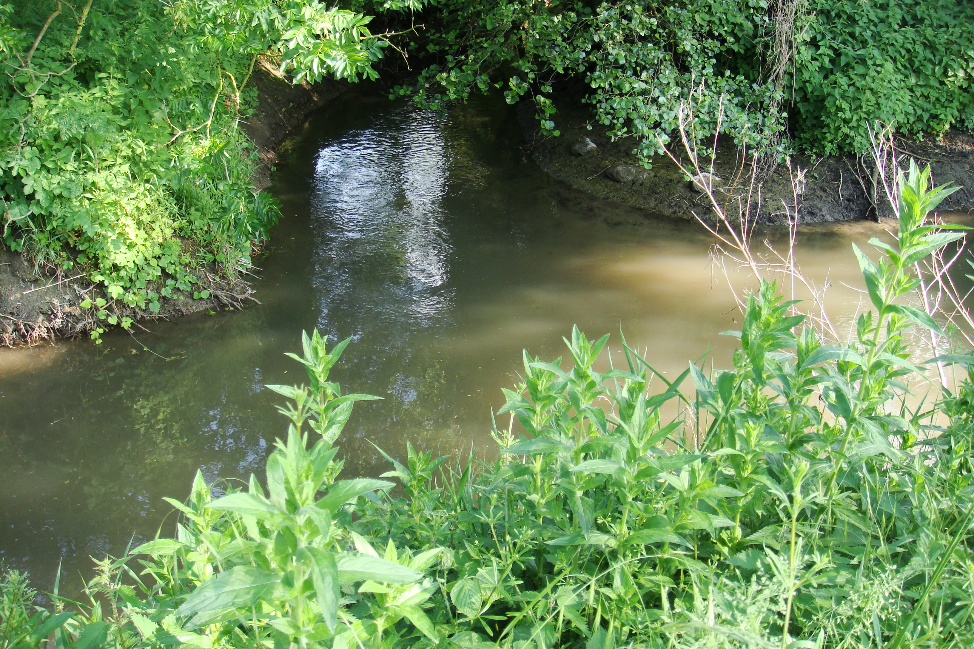 Confluence of Schledde (middle) and Ahse (flows from left to right).